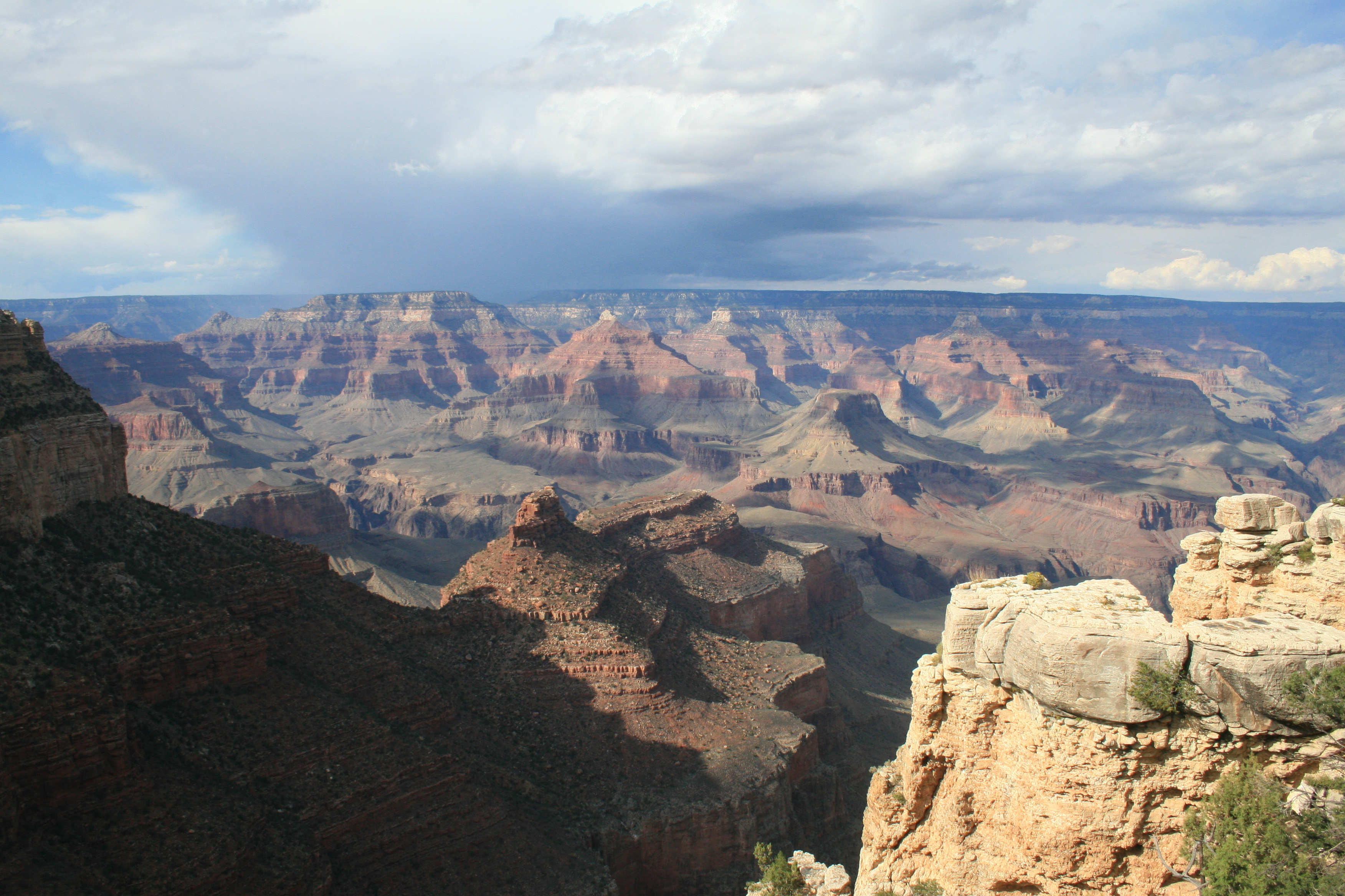 South rim of Grand Canyon, Arizona View from Grandeur point, looking north-west.